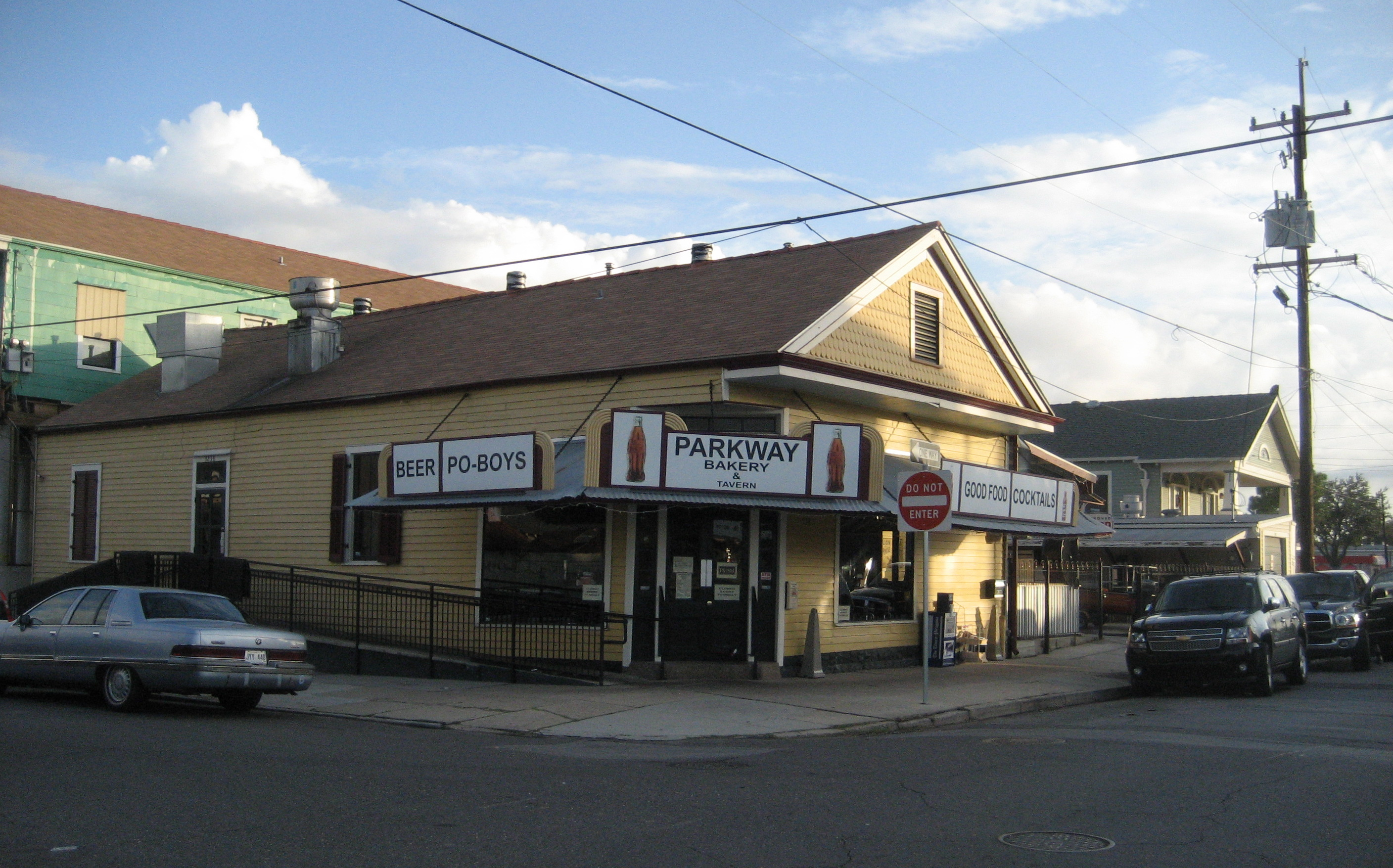 Parkway Restaurant, Mid City New Orleans.